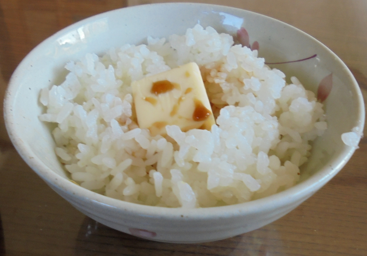 Butter and Rice (バターご飯)